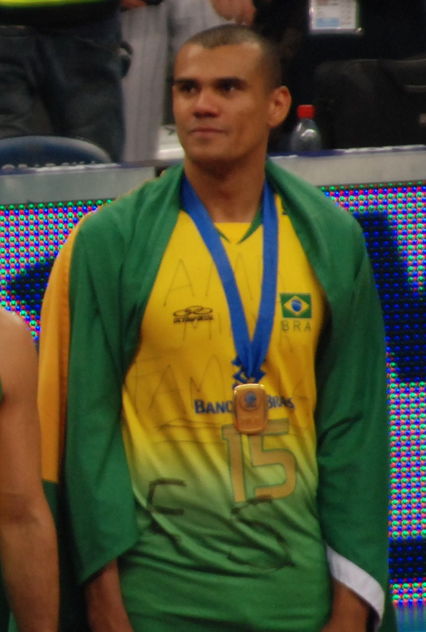 Brazilian volleyball player Rodrigo do Nascimento Pinto